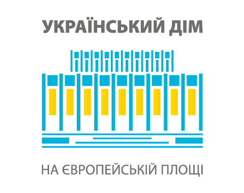 Держа́вне підприє́мство Націона́льний це́нтр ділово́го та культу́рного співробі́тництва «Украї́нський дім»